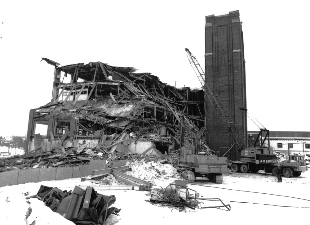 Uniroyal demolition in 1994 in Saint-jerome,Quebec,Canada